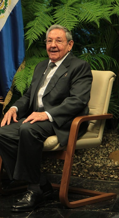 The Cuban President Raul Castro